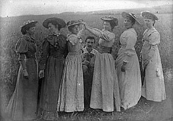 The ImmortalsGlasgow School of Art students at Roaring Camp in Ayreshire. Left to right: Frances MacDonald, Agnes Raeburn, Janet Aitken, Charles Rennie Mackintosh, Katherine Cameron, Jessie Keppie and Margaret MacDonald.